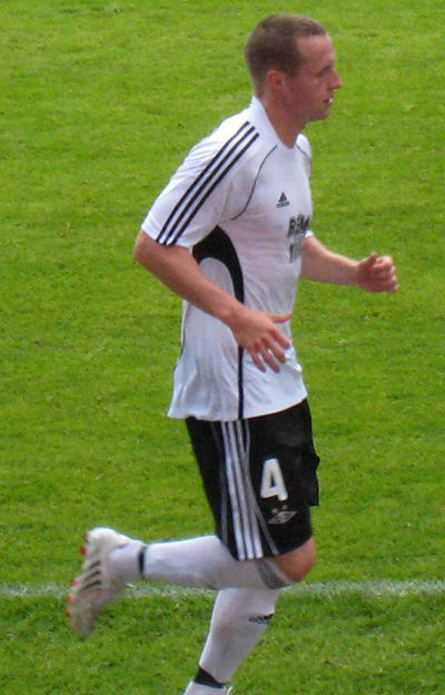 Fredrik Stoor in Rosenborgs match against FK Ekranas in Trondheim July 13th 2008